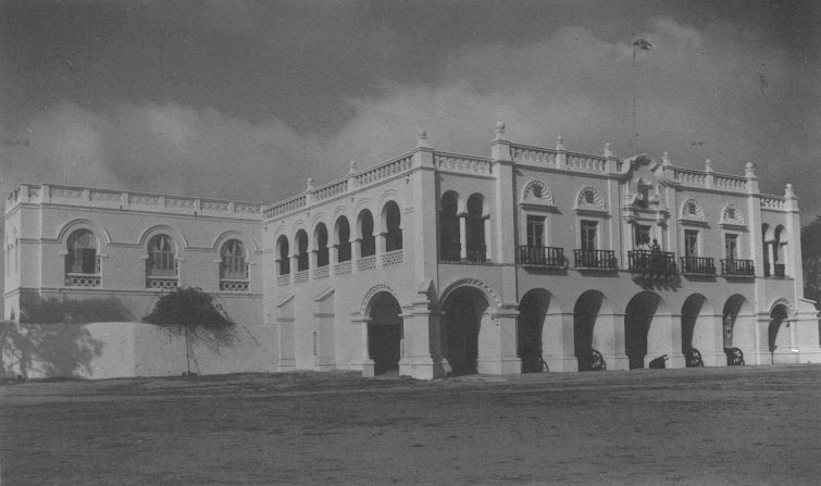 Governor's Palace in Diu (1949) after restoration by D. Miguel de Noronha de Paiva Couceiro, Governor in 1948/49